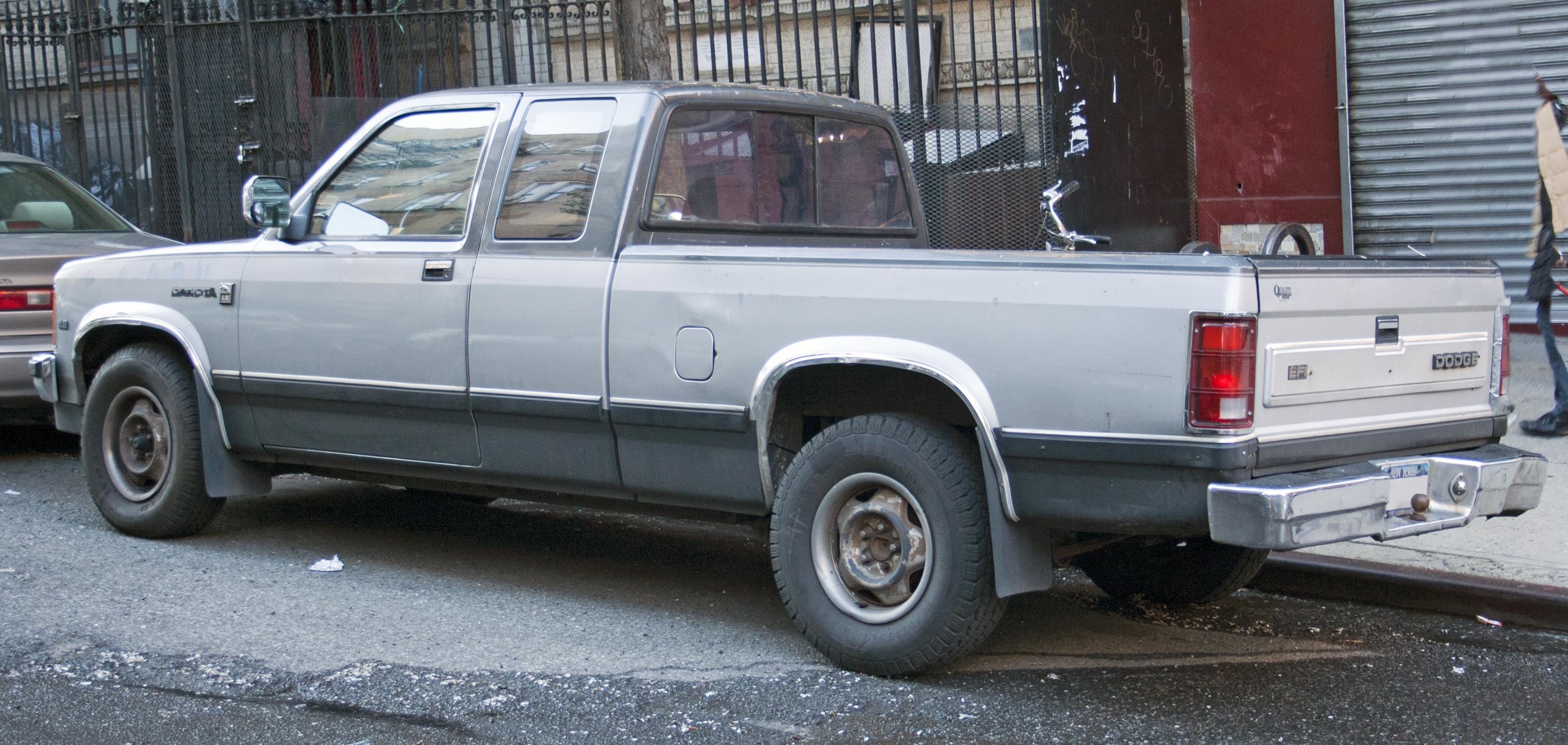 1990 Dodge Dakota 3.9 V6 LE